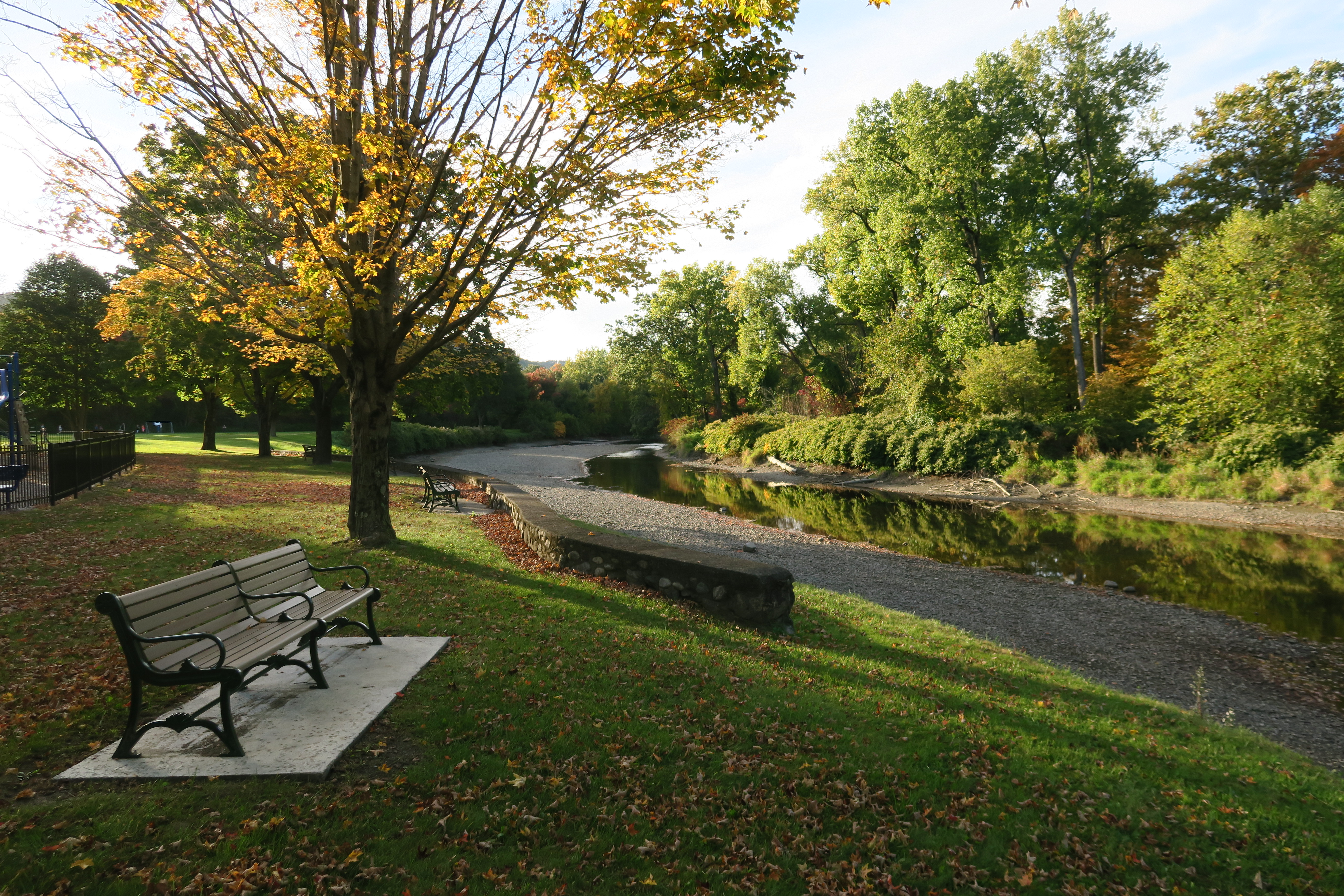 Green River at the Green River Swimming and Recreation Park, Greenfield Massachusetts